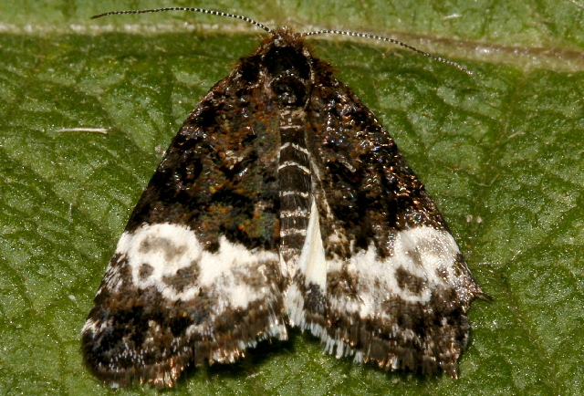 Annaphila diva, Port Alberni, Vancouver Island, British Columbia, Canada